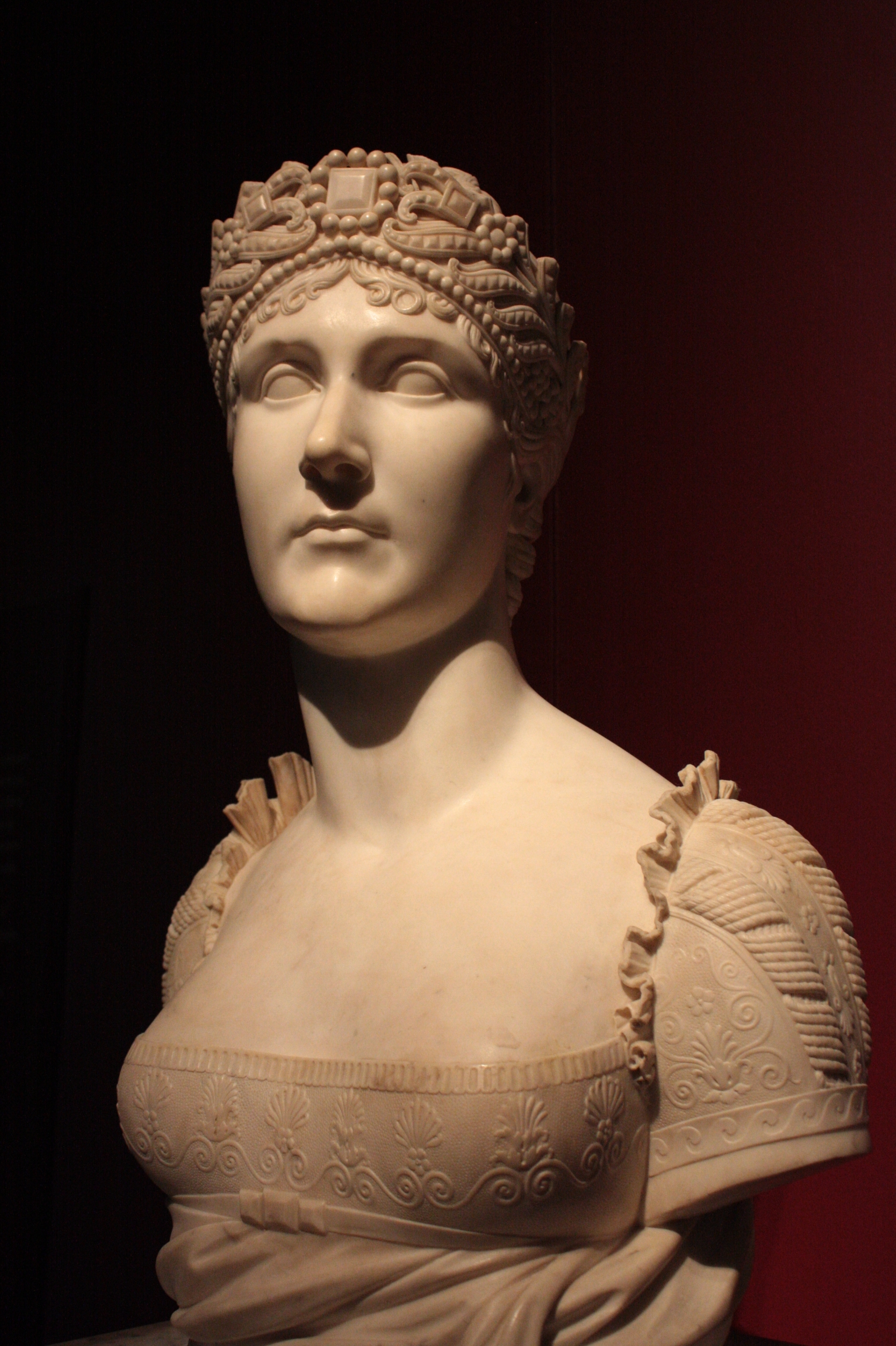 Joseph Chinard , Empress Josephine (1808), London, Victoria and Albert Museum.